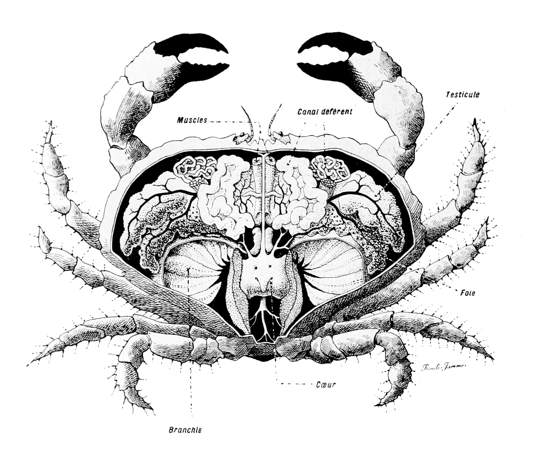 Anatomy of a crab, exemplified by Cancer pagurus